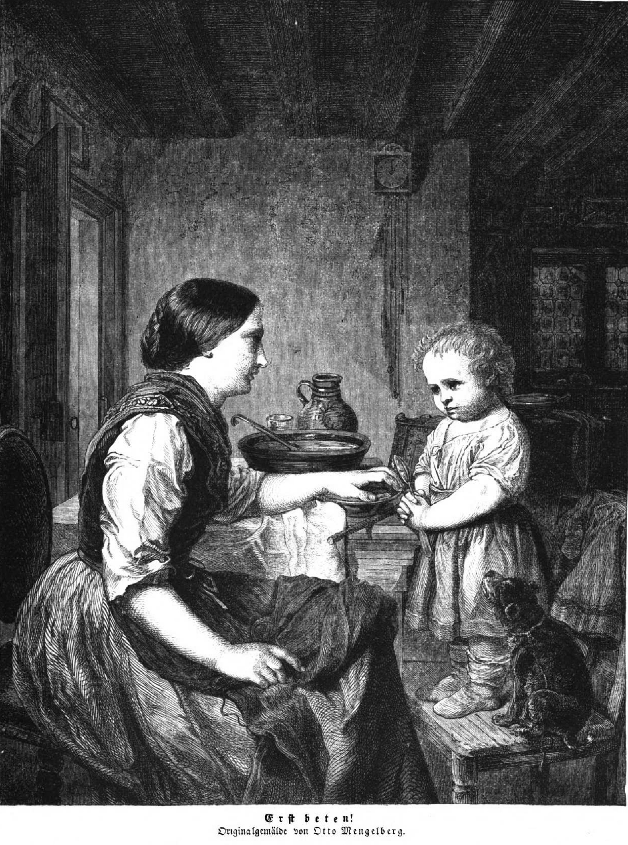 caption: "Erst beten!. Originalgemälde von Otto Mengelberg."